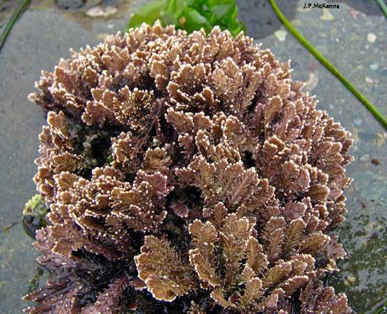 Coralline Red Alga (Corallina pinnatifolia) at Cabrillo National Monument, San Diego, California, USA. NPS photo, no copyright.